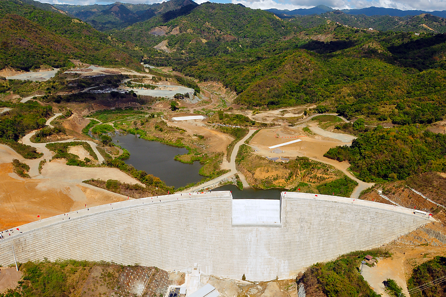 Aerial view of the Portugues Dam in Ponce, Puerto Rico. The dam was inaugurated on Feb. 5, by the governor of Puerto Rico, Alejandro Garcia Padilla and Honorable Jo-Ellen Darcy, Assistant Secretary of the Army for Civil Works.